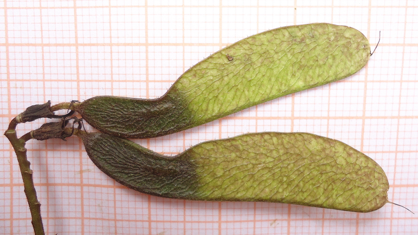 Machaerium isadelphum (syn. M. hirtum) fruits, Bahia, Brazil